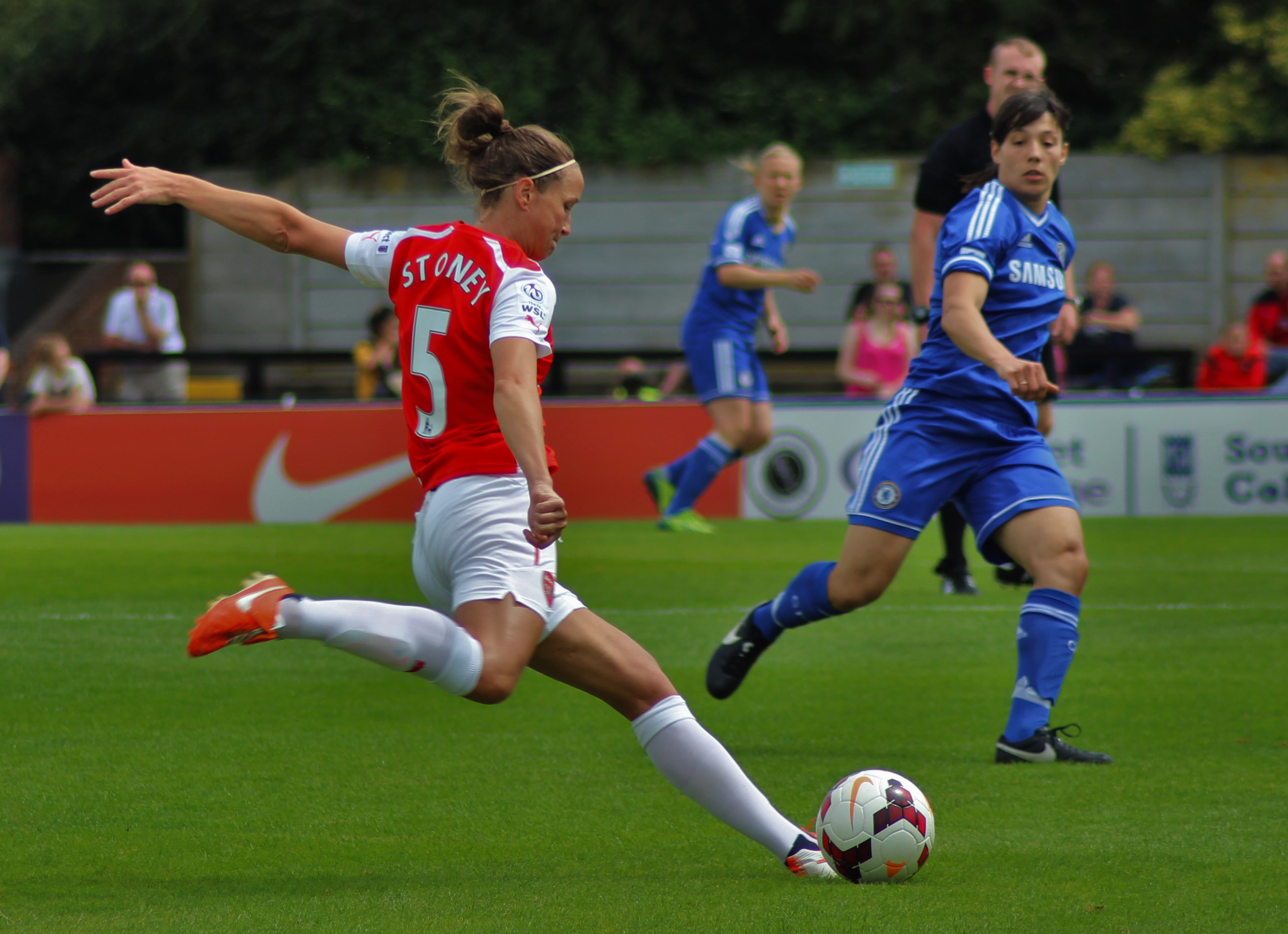 Casey Stoney of Arsenal Ladies strikes the ball against Chelsea Ladies in the Continental Cup game